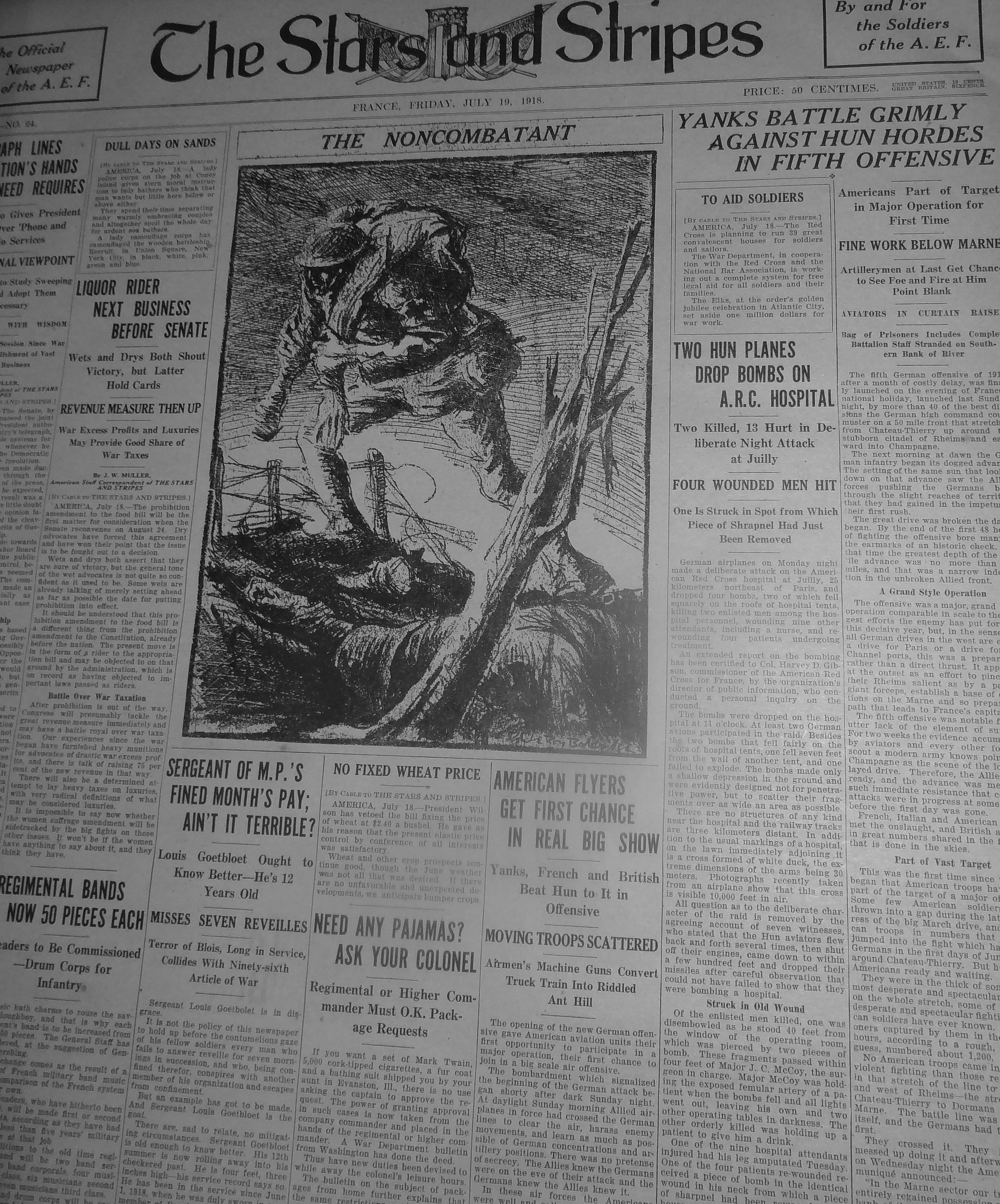 The front page of the July 18, 1918 edition of the military newspaper "Stars and Stripes" featuring an illustration by Cyrus LeRoy Baldridge who was the chief illustrator of the paper during World War I